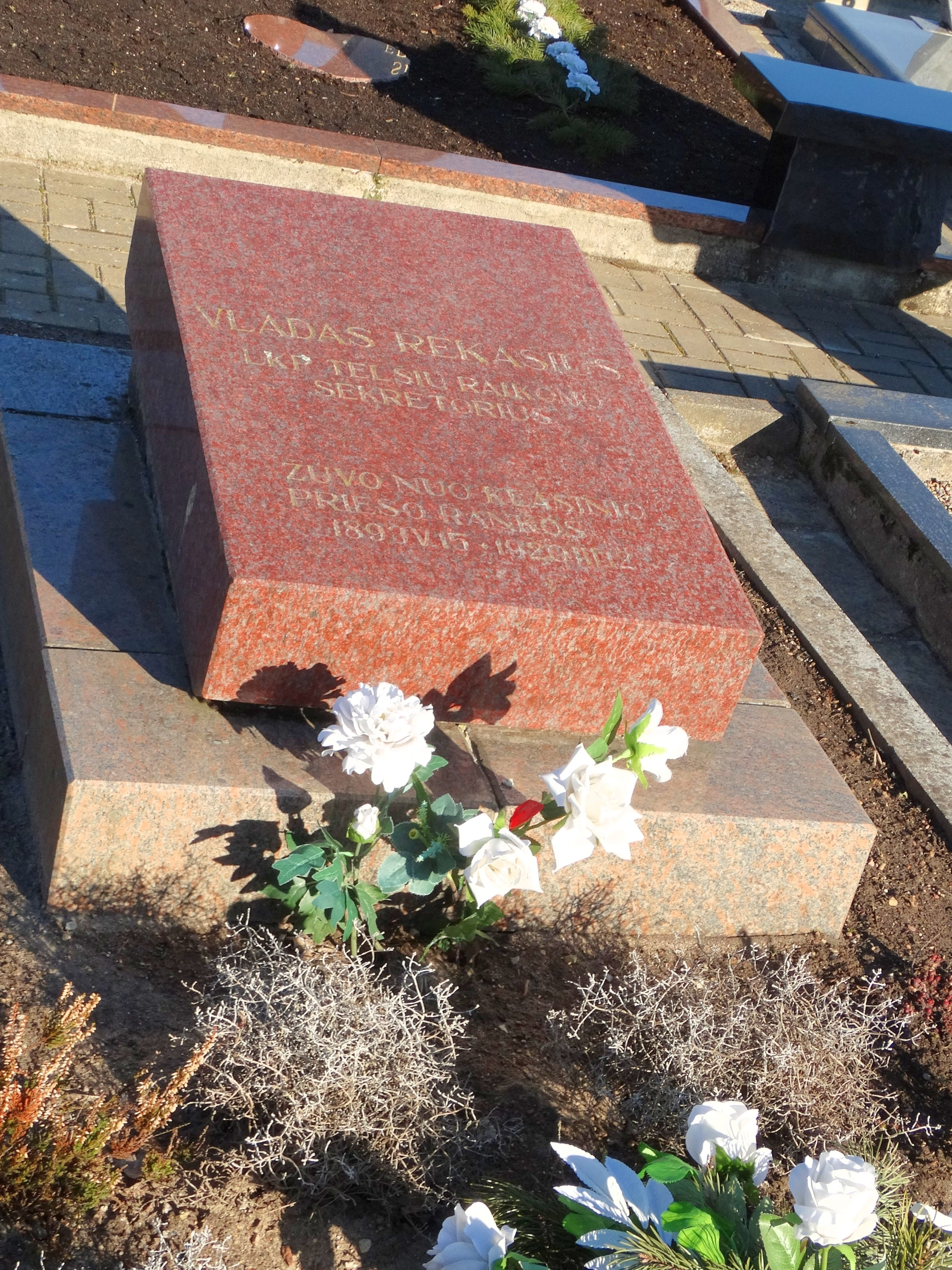 Tombstone of Vadas Rekašius, Plungė, Lithuania